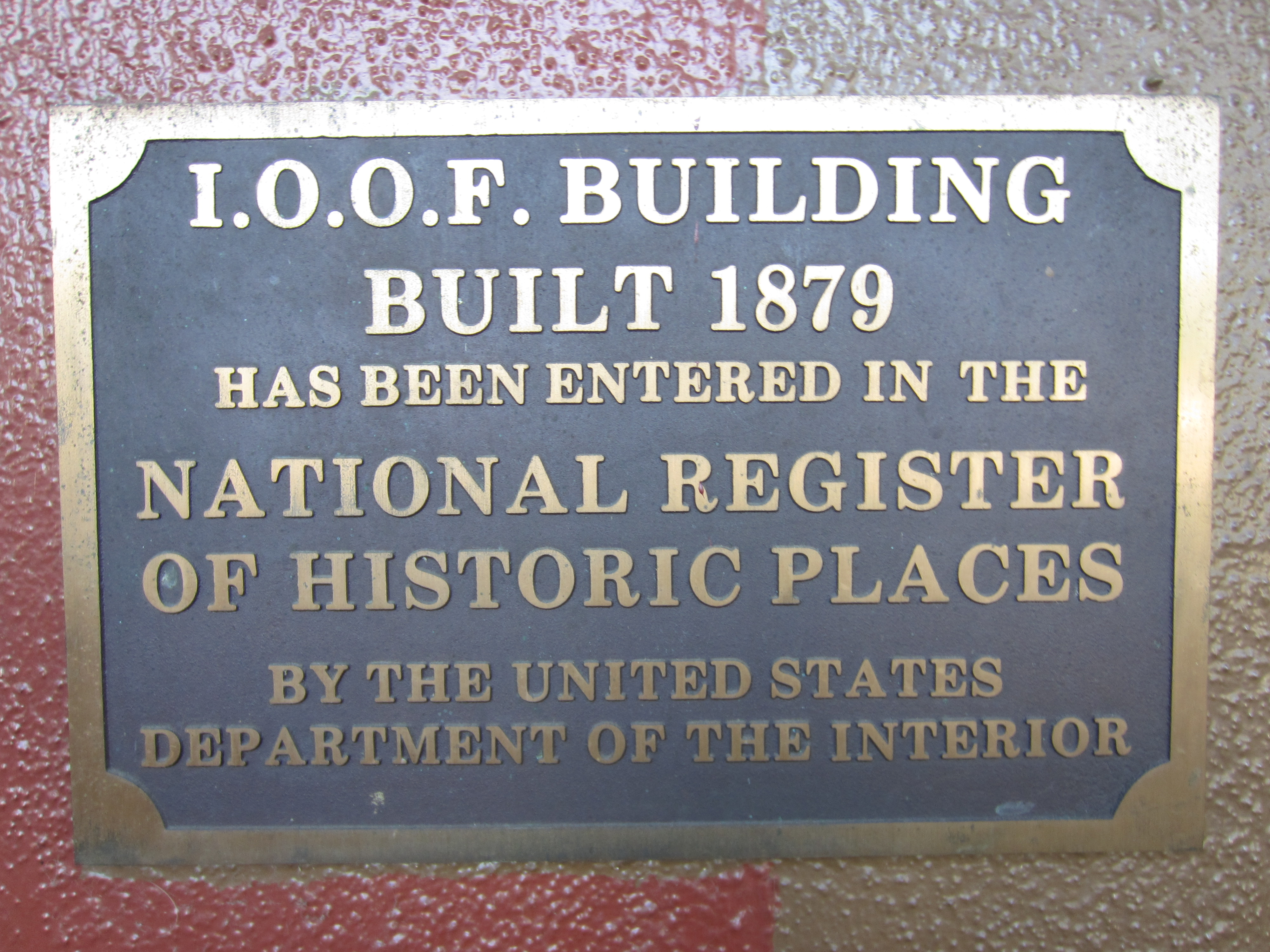 Ashland, Oregon (2019)